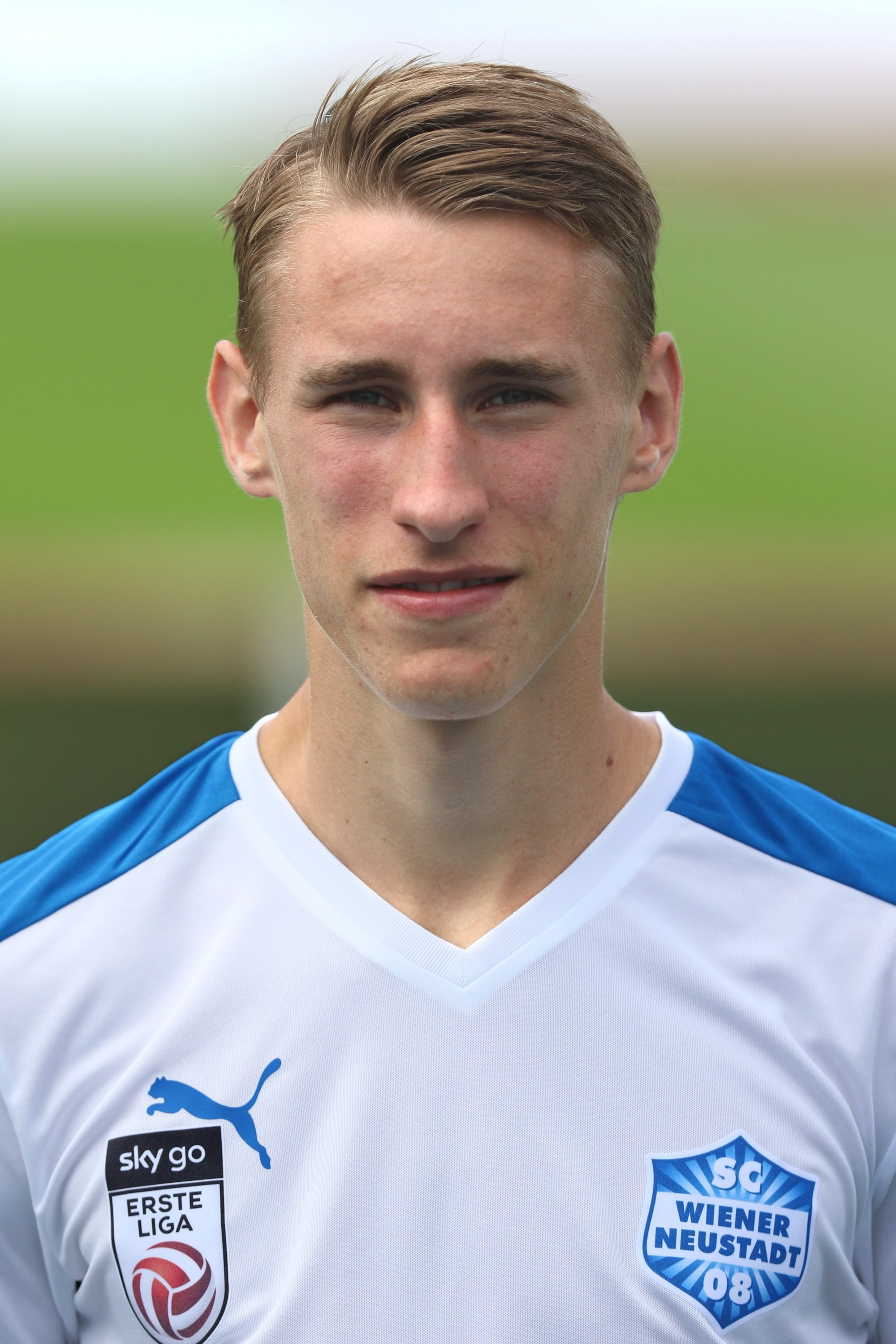 SC Wiener Neustadt squad presentation summer 2017. – The photo shows Jürgen Bauer.